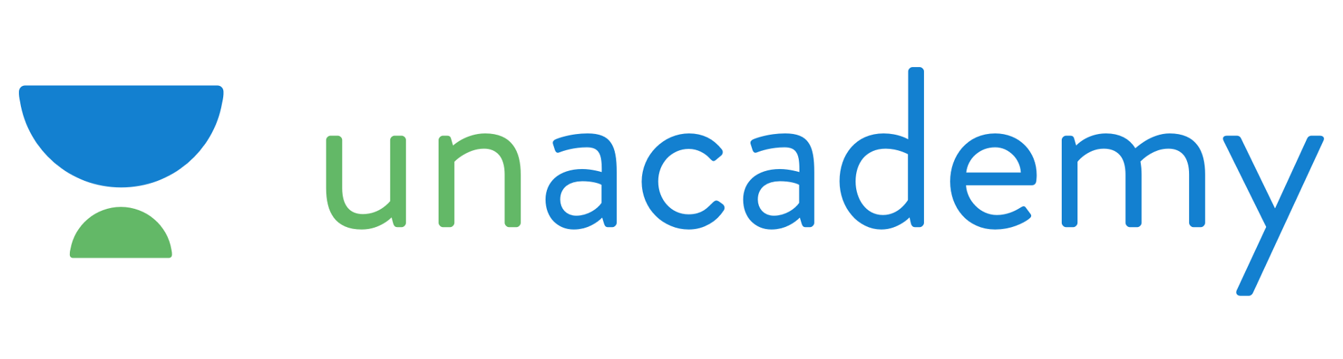 This is the logo of Unacademy, a technology startup based in India